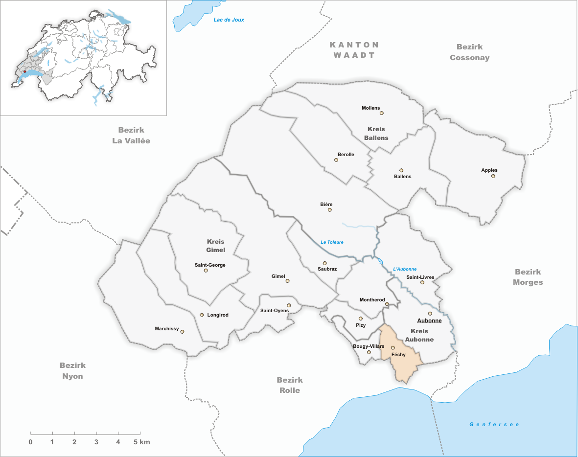 Municipality Féchy